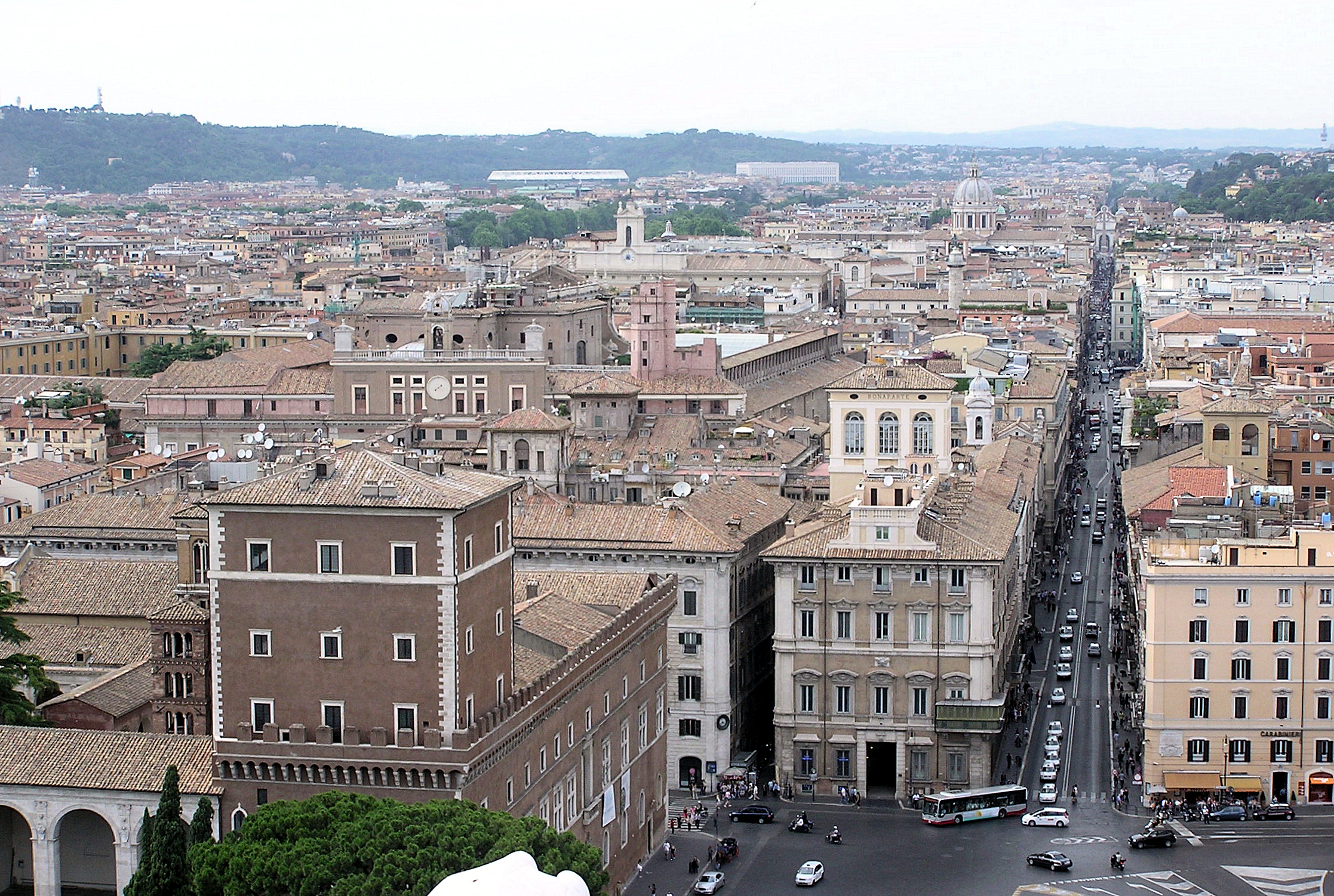 Palazzo Venezia (its tower rises above the left foreground pines), in Piazza Venezia, Rome, Italy. Photographed from the viewing terrace of the Monument to Vittorio Emanuele II. (The white blob at the very bottom of the picture is part of a statue on the edge of the terrace. I could not lean over far enough to eliminate it.)